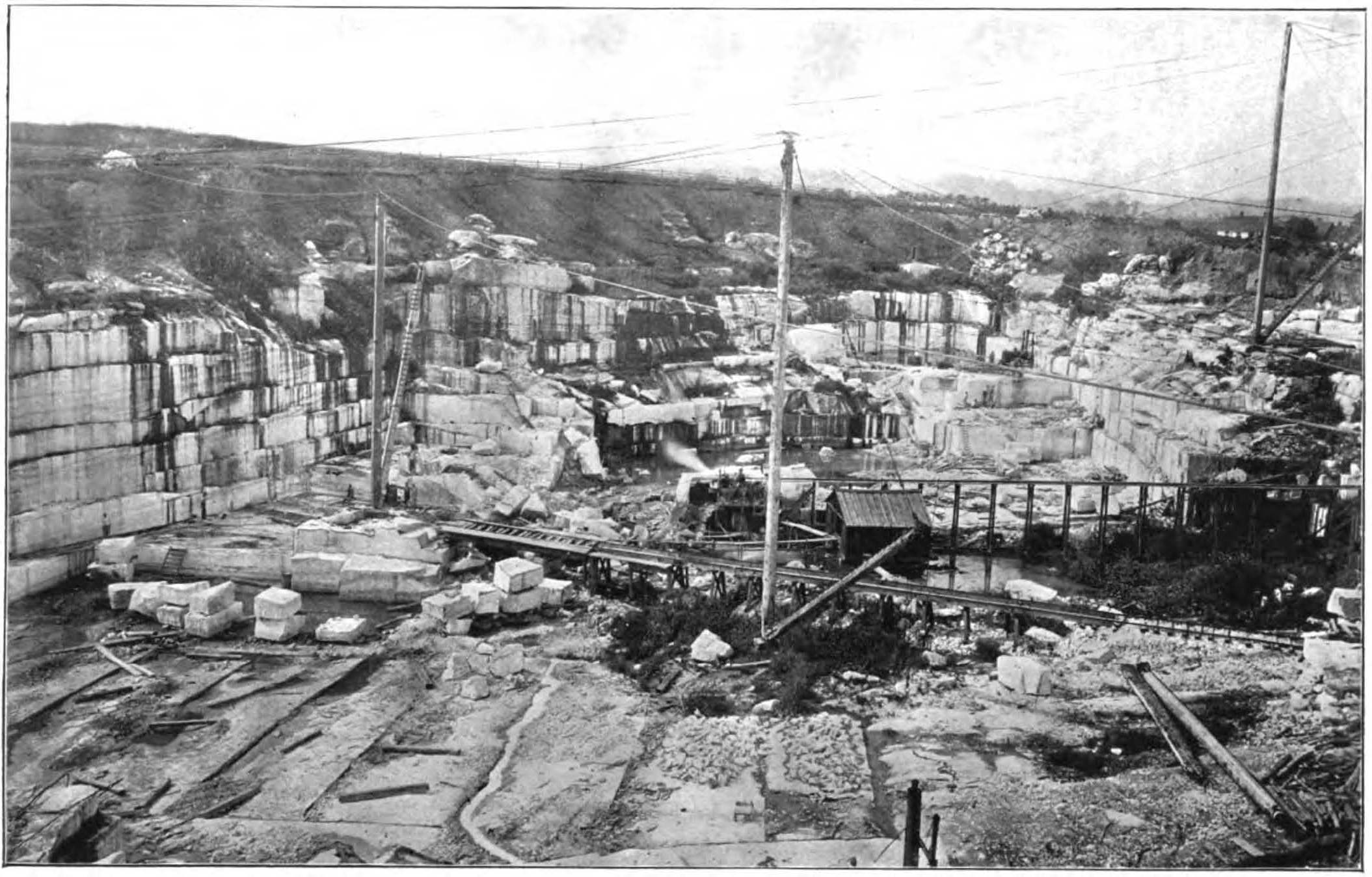 Plate XX of 1898 publication called Maryland Geological Survey Volume Two. Caption:Beaver Dam Quarry, Cockeysville, Baltimore County.